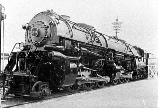 Norfolk & Western Railway Class A 2-6-6-4 steam locomotive at the New York World's Fair 1939-06-17. Credit: Library of Congress, Prints and Photographs Division, Gottscho-Schleisner Collection, reproduction number LC-G612-T-35285 DLC